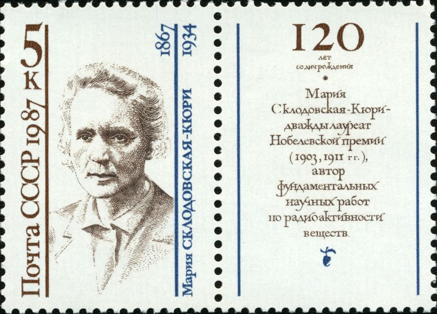 A USSR stamp, Scientists. Date of issue: 8th October 1987. Designer: A. Starilov Michel catalogue number: 5759Zf. 5 K. deep brown, reddish brown and blue. Portrait of Marie Skladovskaya-Curie (physicist and chemist).